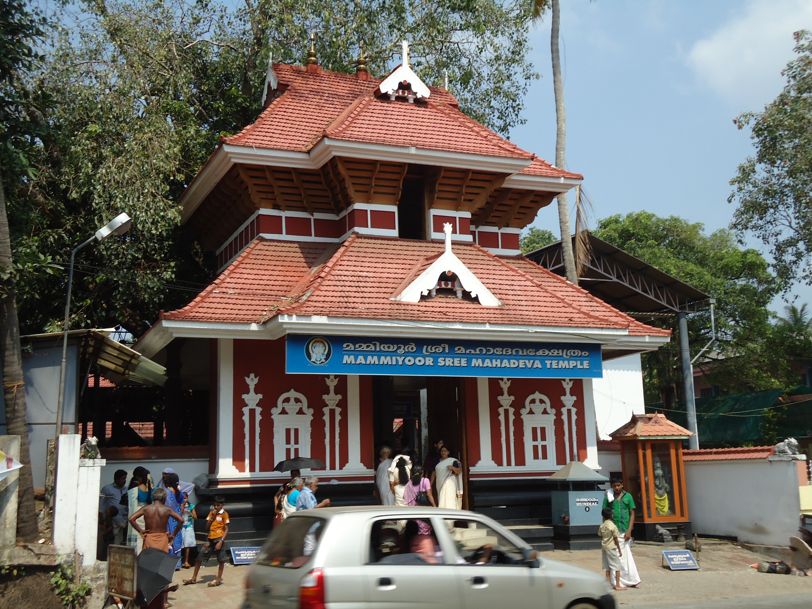 This media file is uploaded with Malayalam loves Wikimedia event.